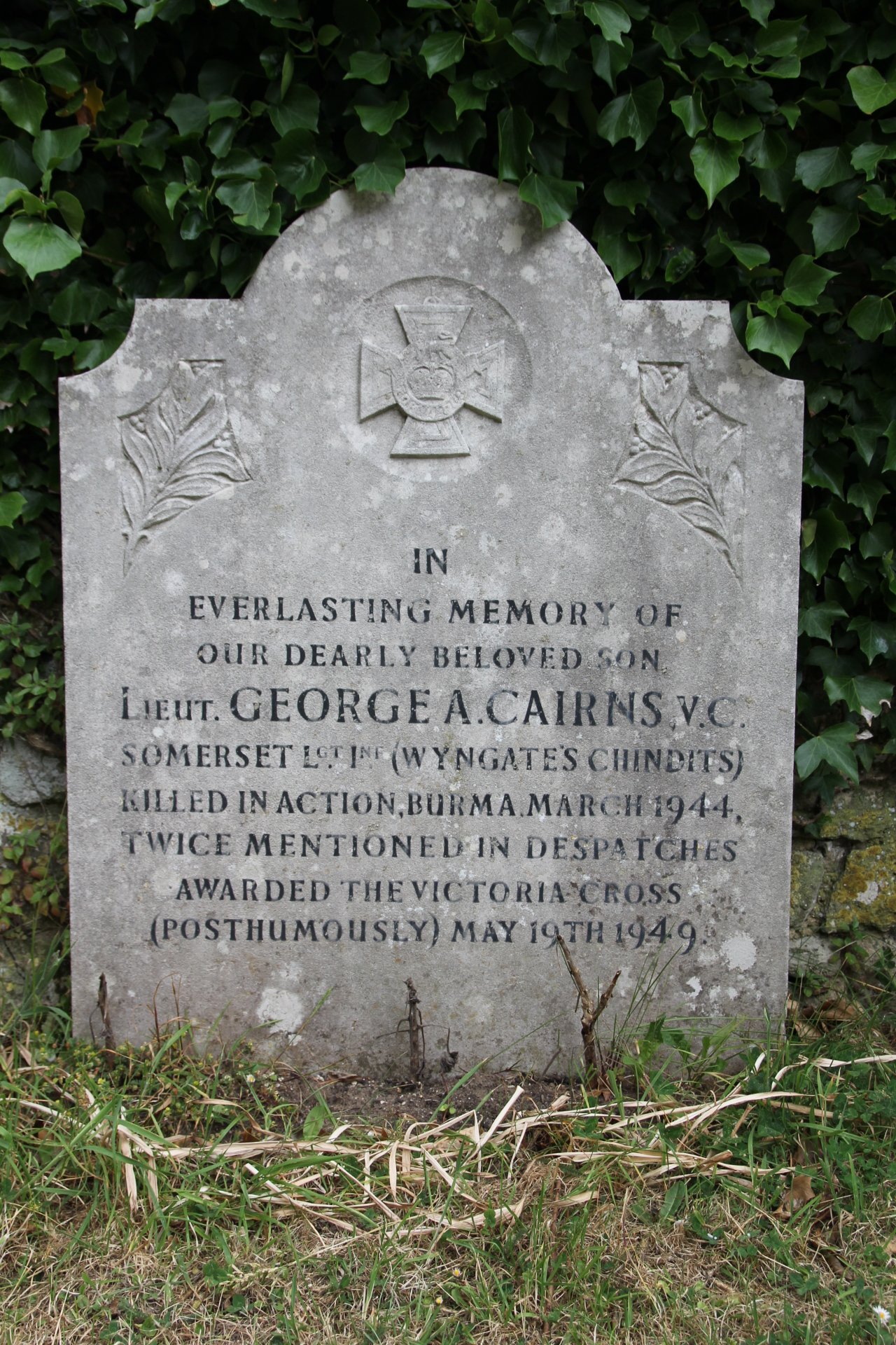 Memorial stone to George Cairns V.C. in grounds of St Mary the Virgin Church, Brighstone, Isle of Wight